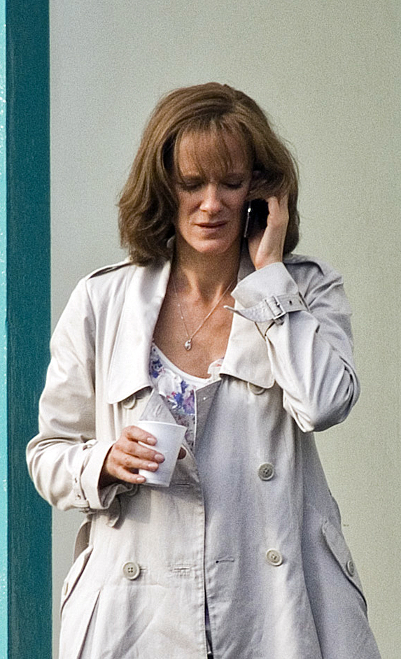 British actress Hermione Norris.